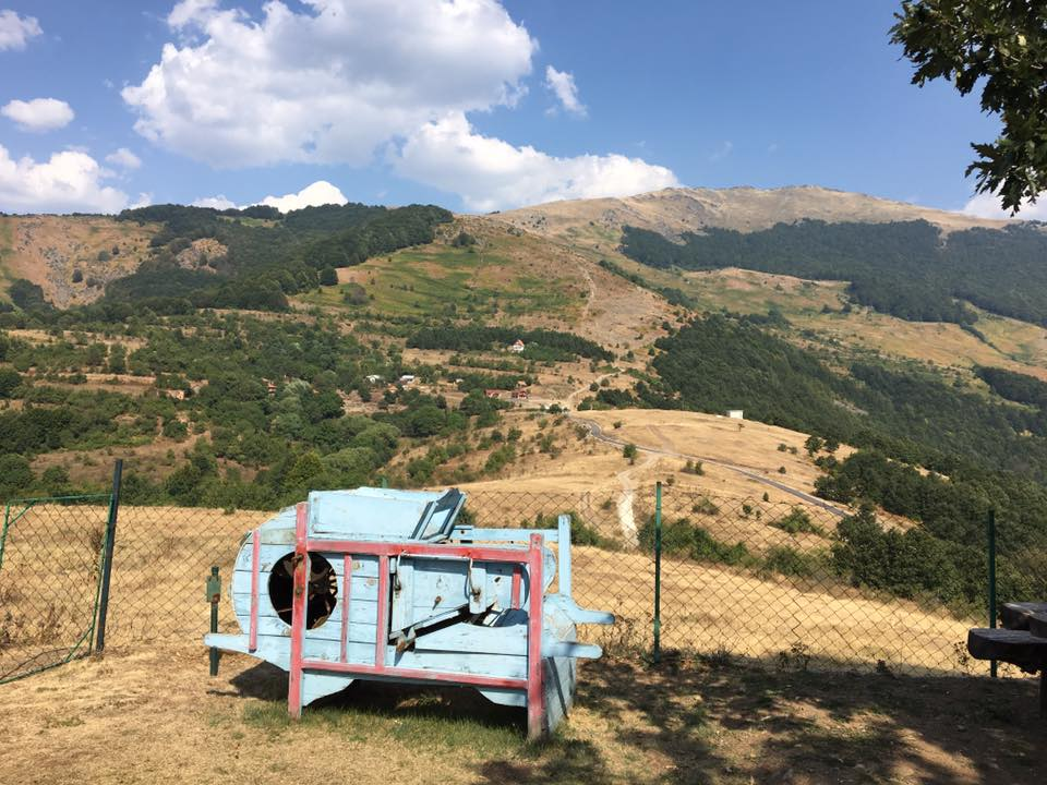 The village of Qafë from restaurant Ilirida